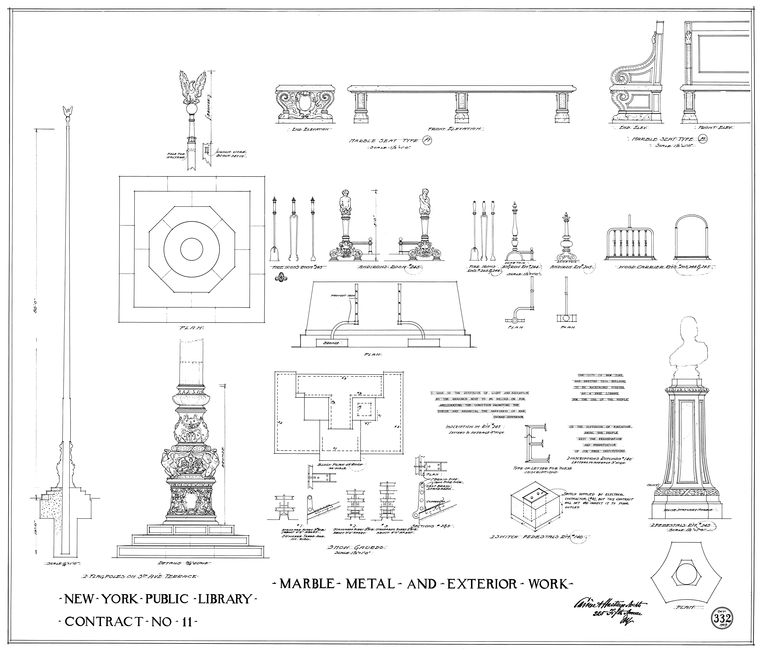 "Marble metal and exterior work," from the architectural plans for the New York Public Library Main Branch, by the New York City firm of Carrère & Hastings. Courtesy of the New York Public Library Digital Collection.